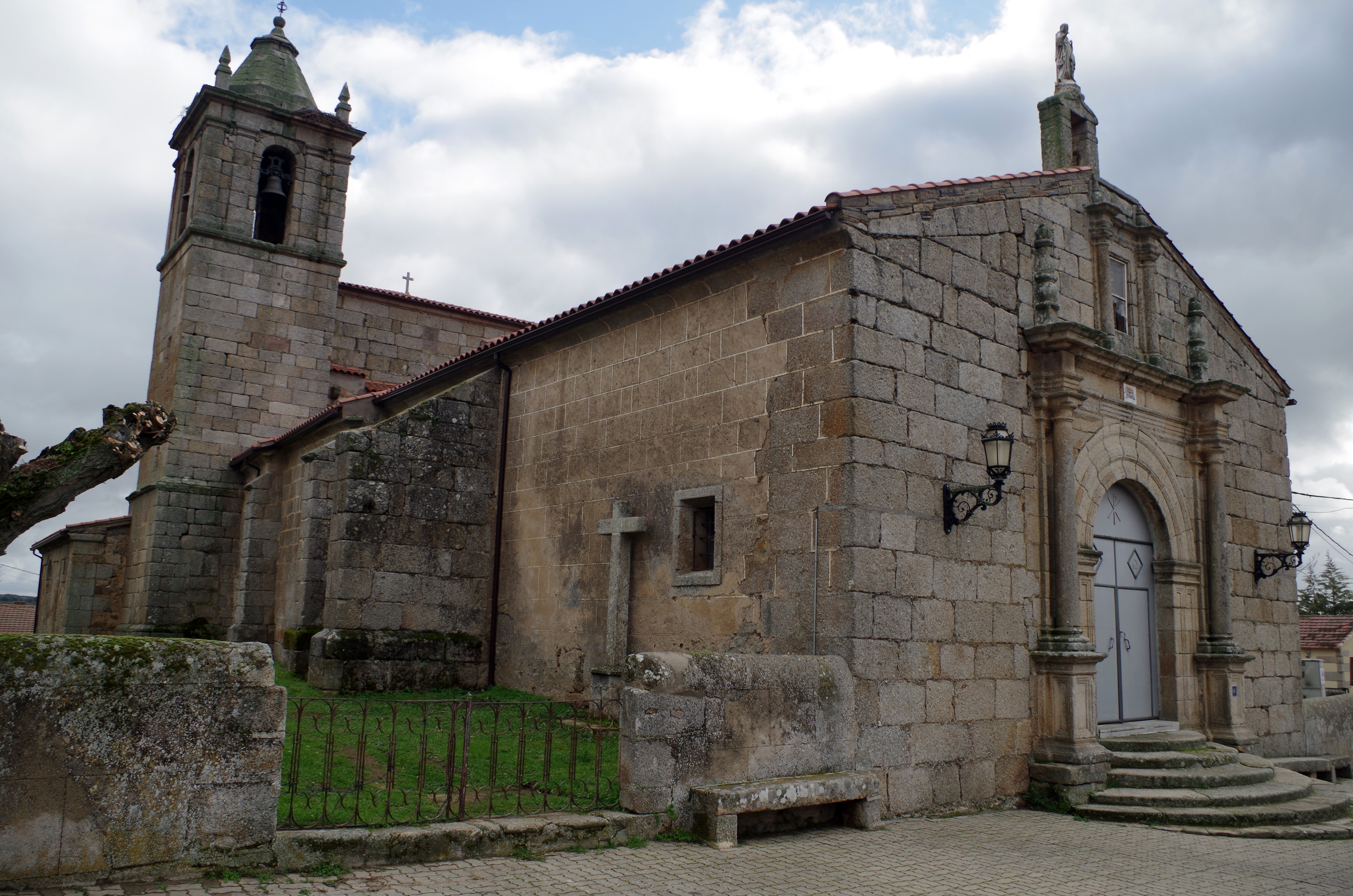 Church of Our Lady of the Rosary in Aldea del Obispo. Salamanca, Spain.